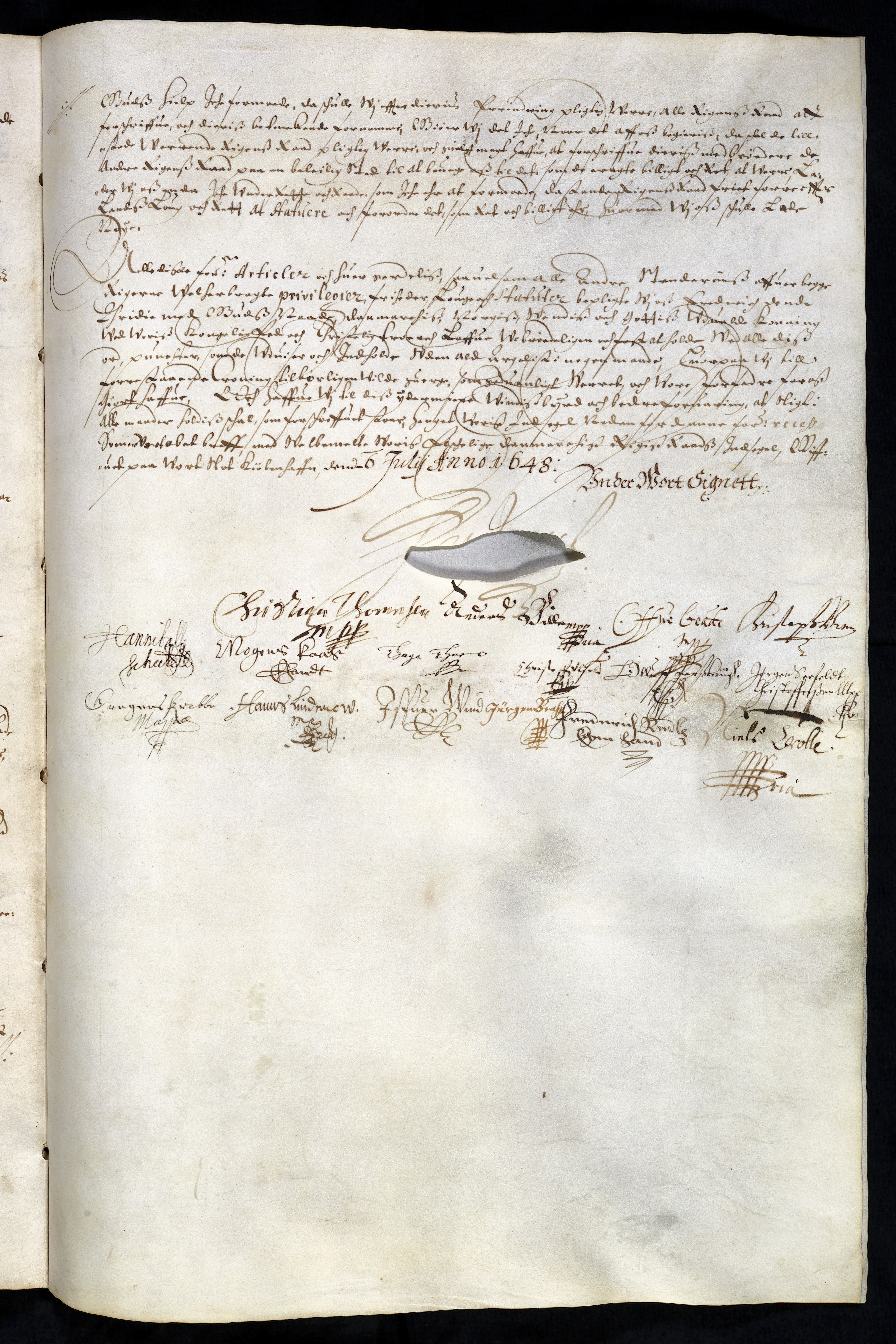 The charter between king Frederik 3 and Danish nobility. After absolutism has been introduced, the kings´ signatur was cut out.